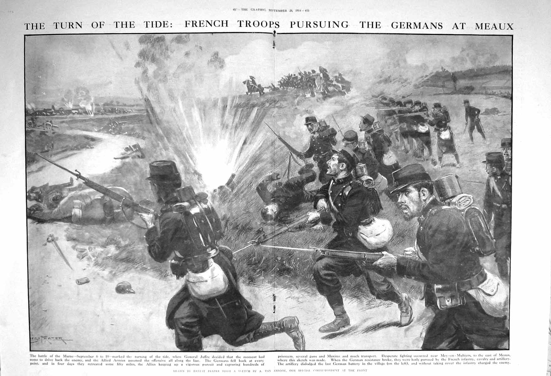 Victorious in the Marne the French pursuers clash with the Germans near Meaux, September 1914